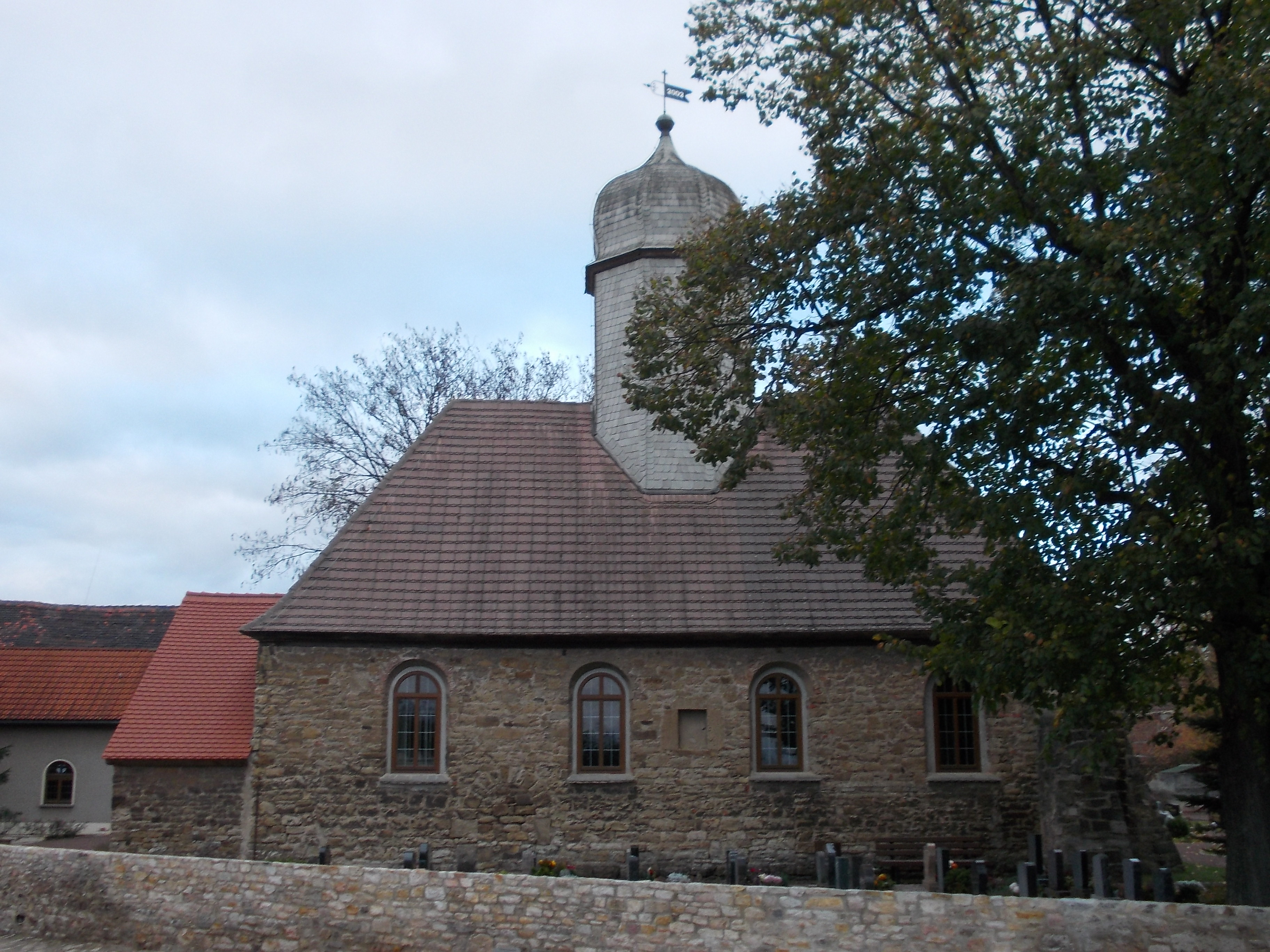 St. George's Church in Meuschau (Merseburg, district: Saalekreis, Saxony-Anhalt)